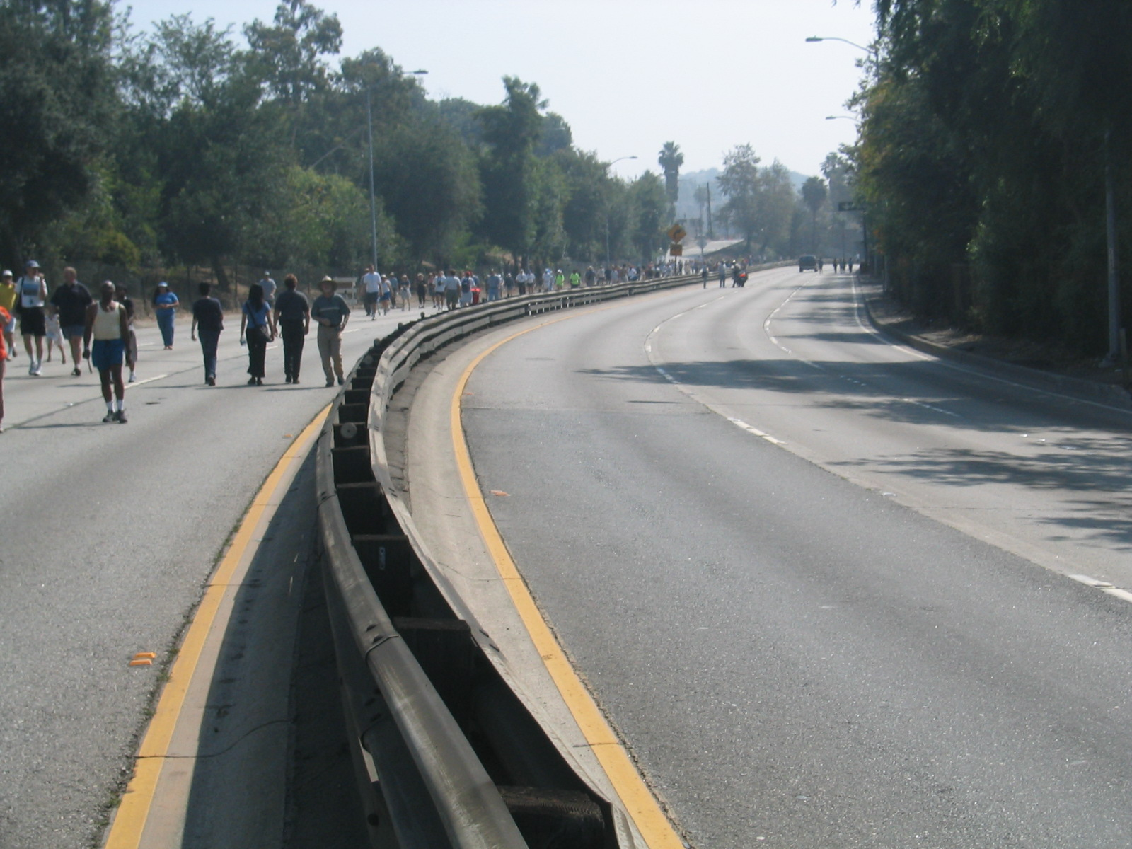 ArroyoFest...we shut down the 110 freeway for a walk and bike ride on a Sunday morning and it was cool !